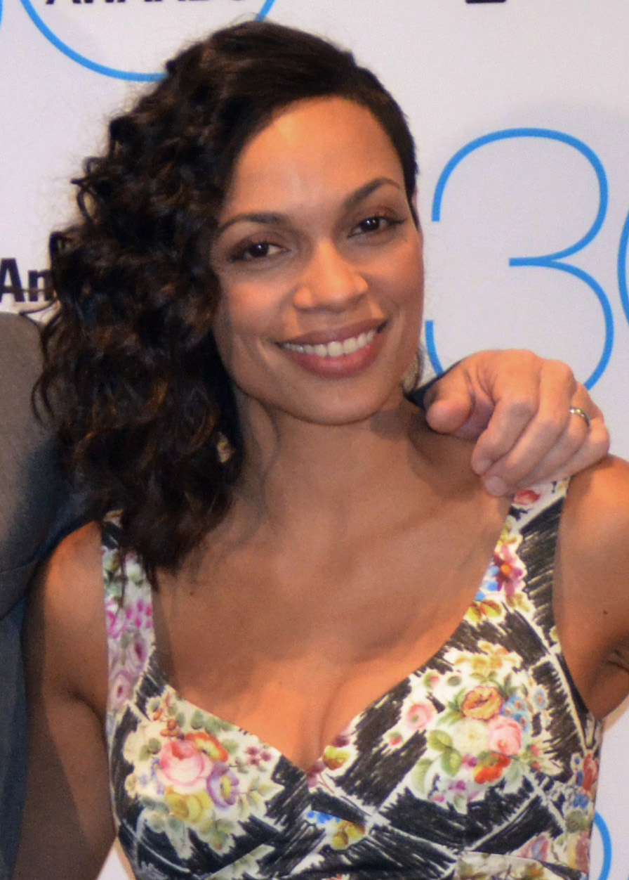 Diego Luna, Josh Welsh & Rosario Dawson at the 2015 Film Independent Spirit Awards Nominations Press Conference